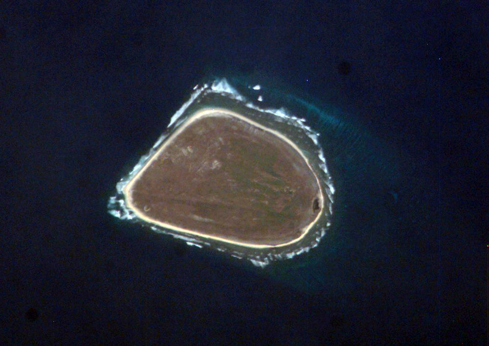 NASA astronaut image of Baker Island in the Pacific Ocean